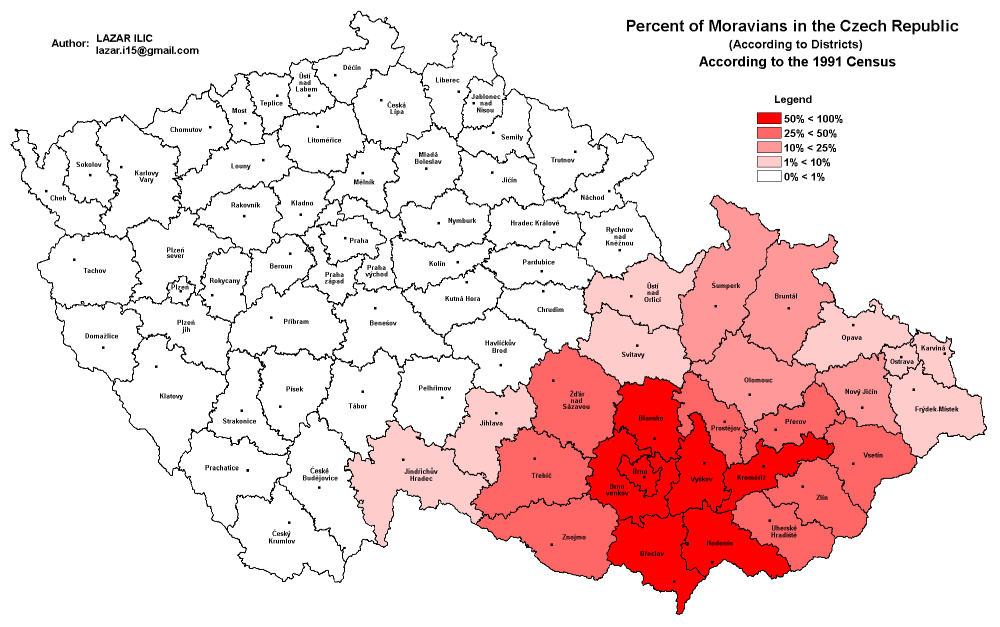 This is an ethnic map of the Czech Republic which shows the percentage of Moravians according to districts according to the 1991 population census.